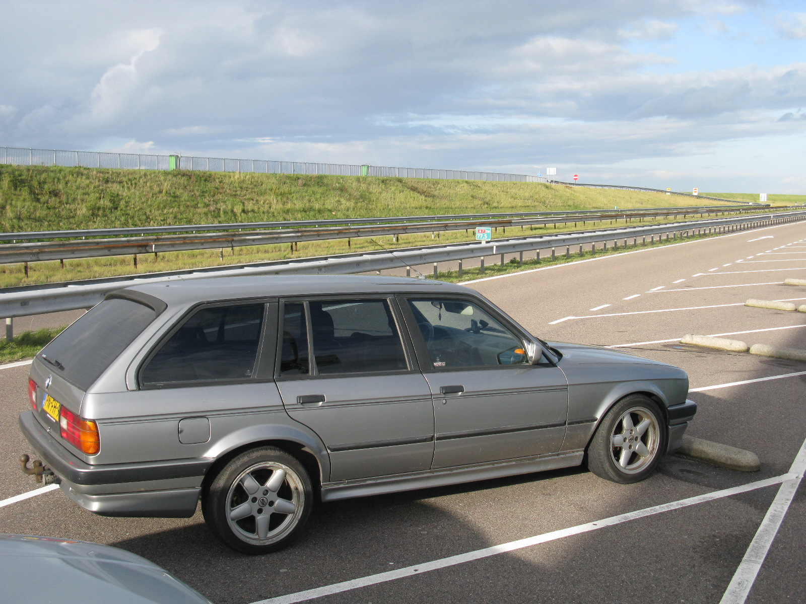 BMW 324td Touring E30